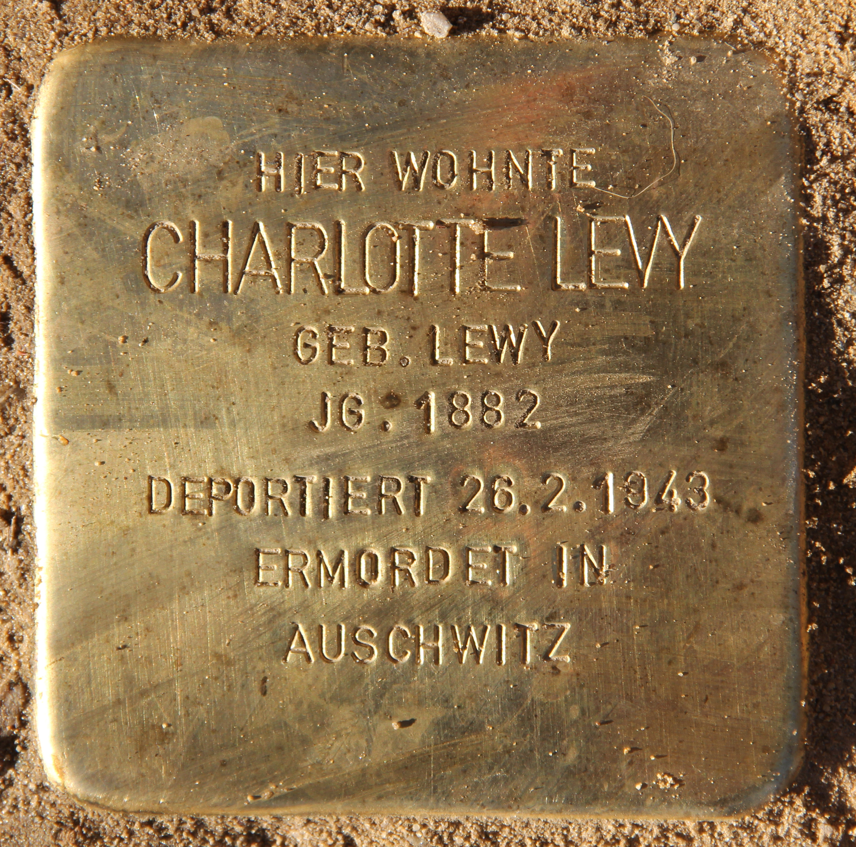 "Stolperstein" (stumbling block), Charlotte Levy, Albertinenstraße 31, Berlin-Zehlendorf, Germany